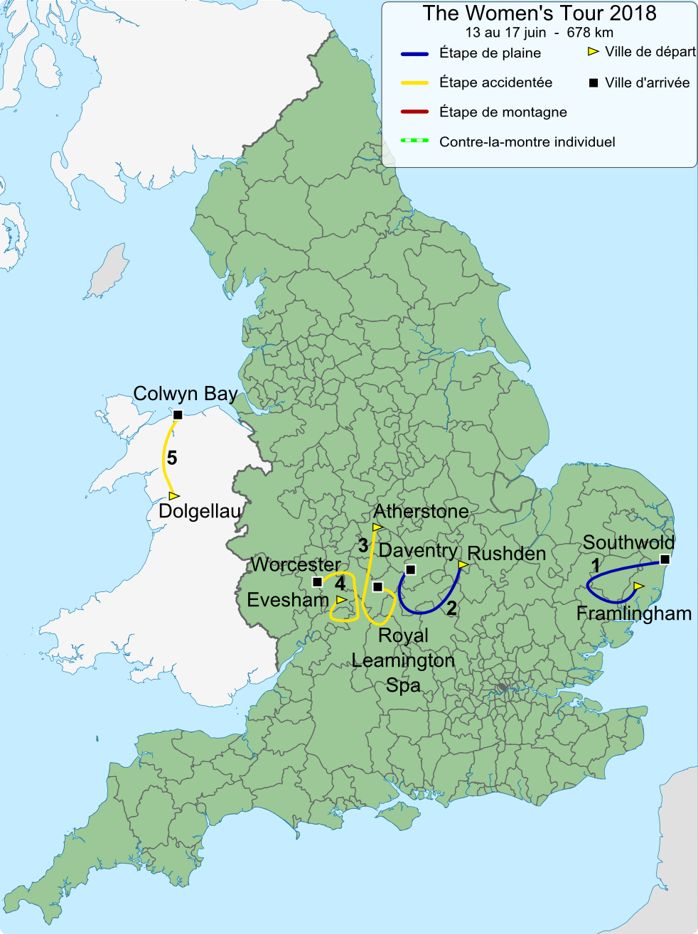 Overview map of the Women's Tour 2018.